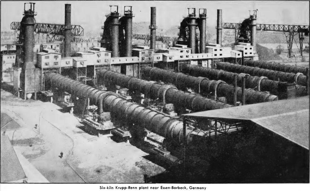 Direct reduction mill at Essen-Borbeck, with its 6 rotating furnaces (Krupp-Renn process).